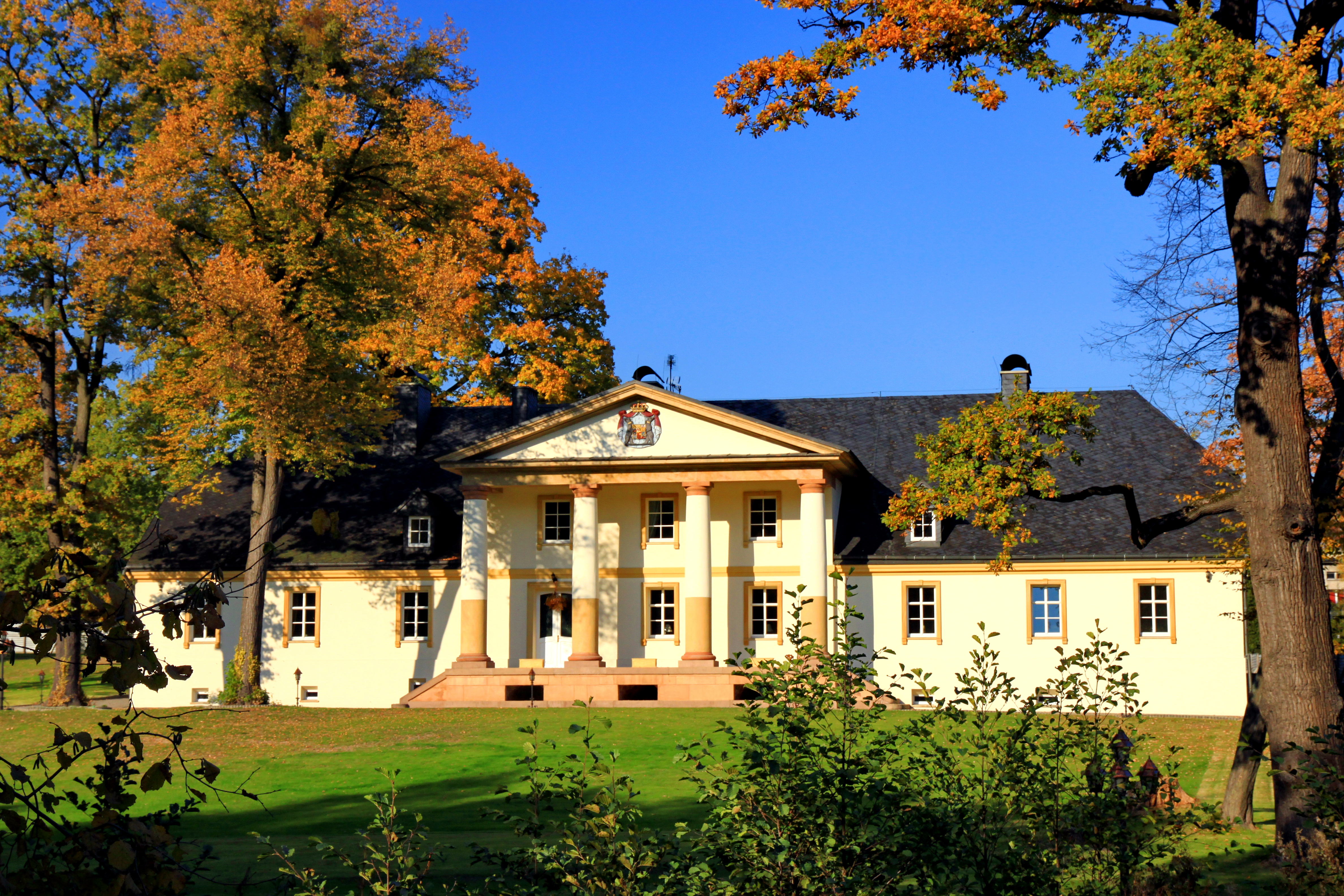 Pszczyna, Mansion "Ludwikówka", build in 18th/19th century